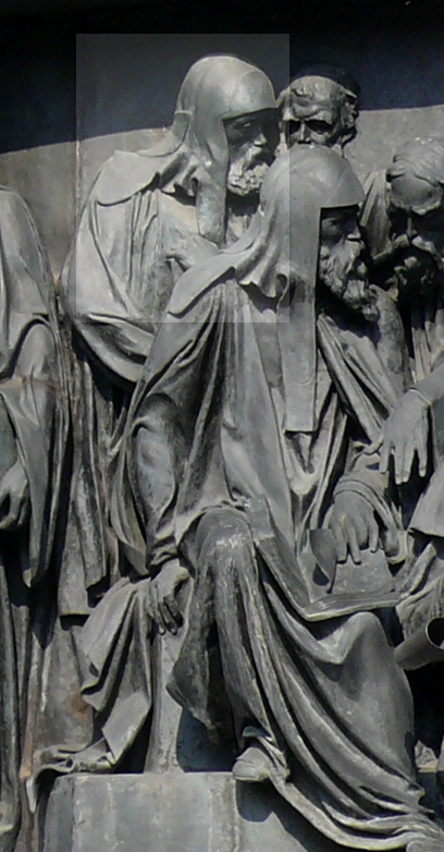 Cyril Belozerskiy on the Monument "Millennuim of Russia" in Veliky Novgorod